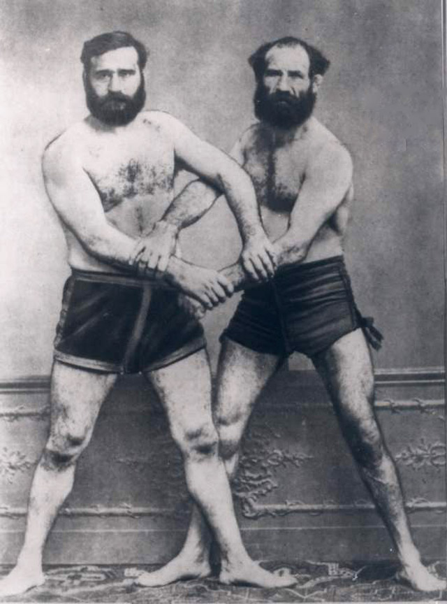 Brothers Marseille